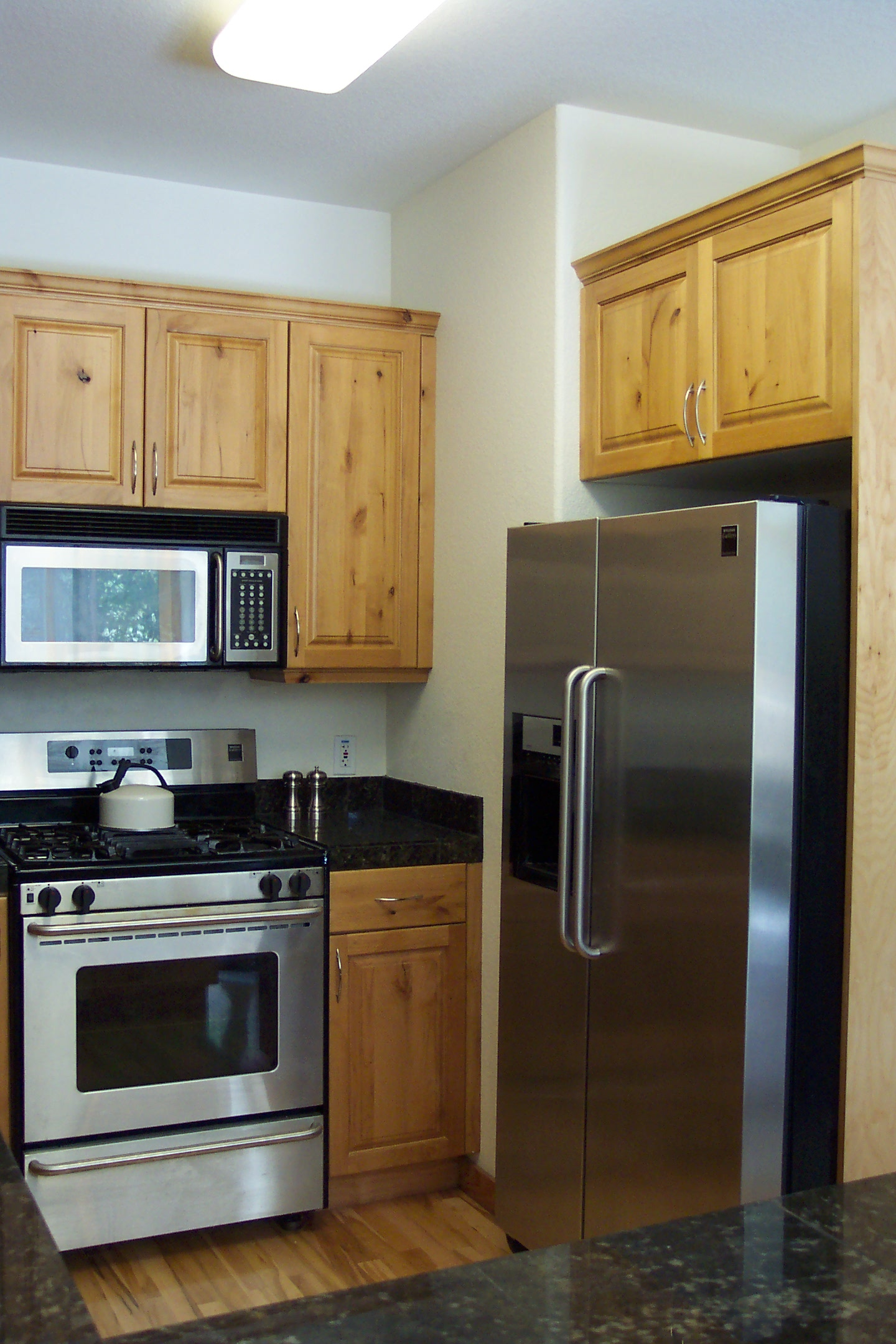 A small, modern kitchen with popular stainless steel appliances.